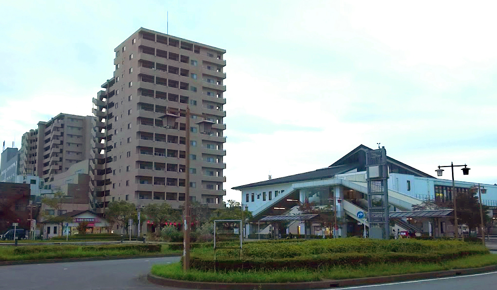 JR Sakura Sta. north side